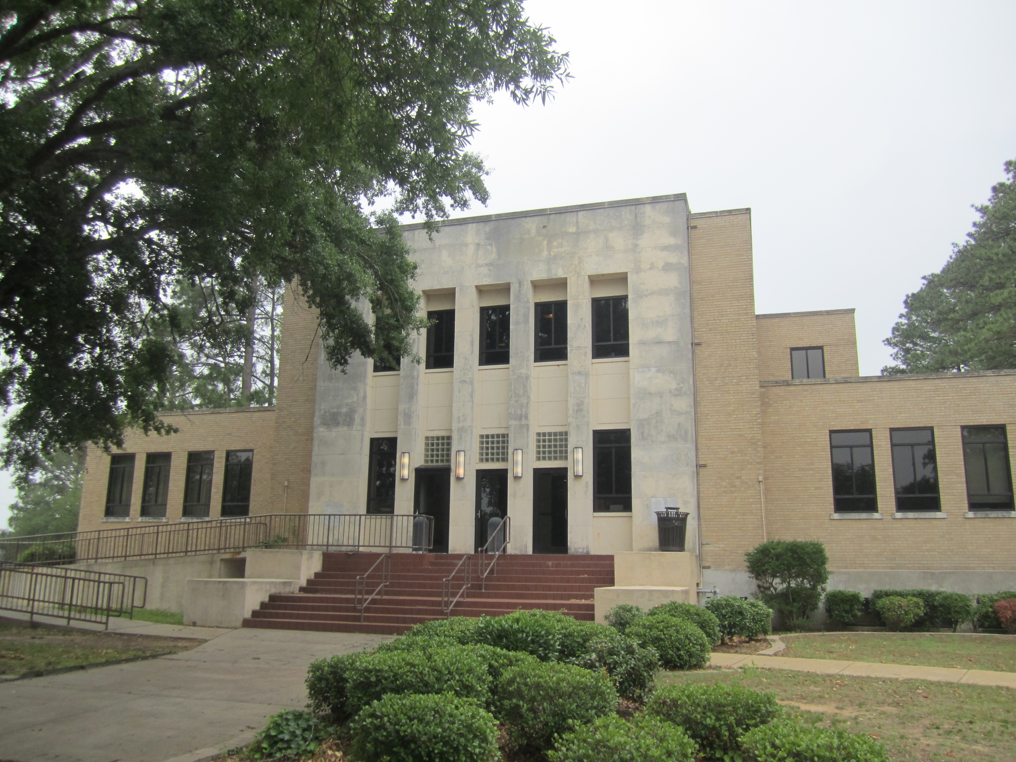 I took photo with Canon camera in Jacksonville, TX.